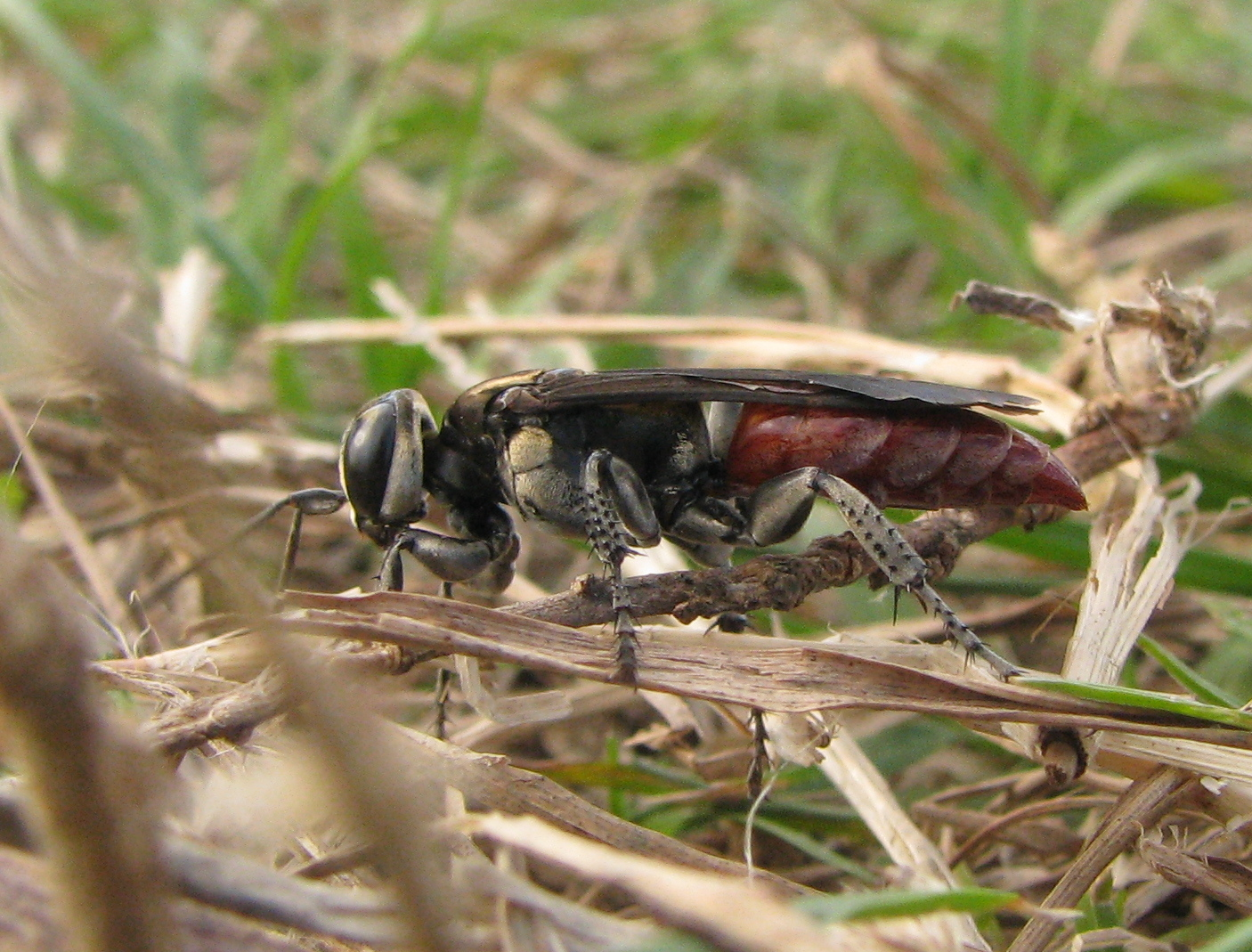 Photograph of a Larra bicolor wasp, side view, on a walking trail at Paynes Prairie in Florida. The wasp was moving about in the grass, possibly in search of prey.